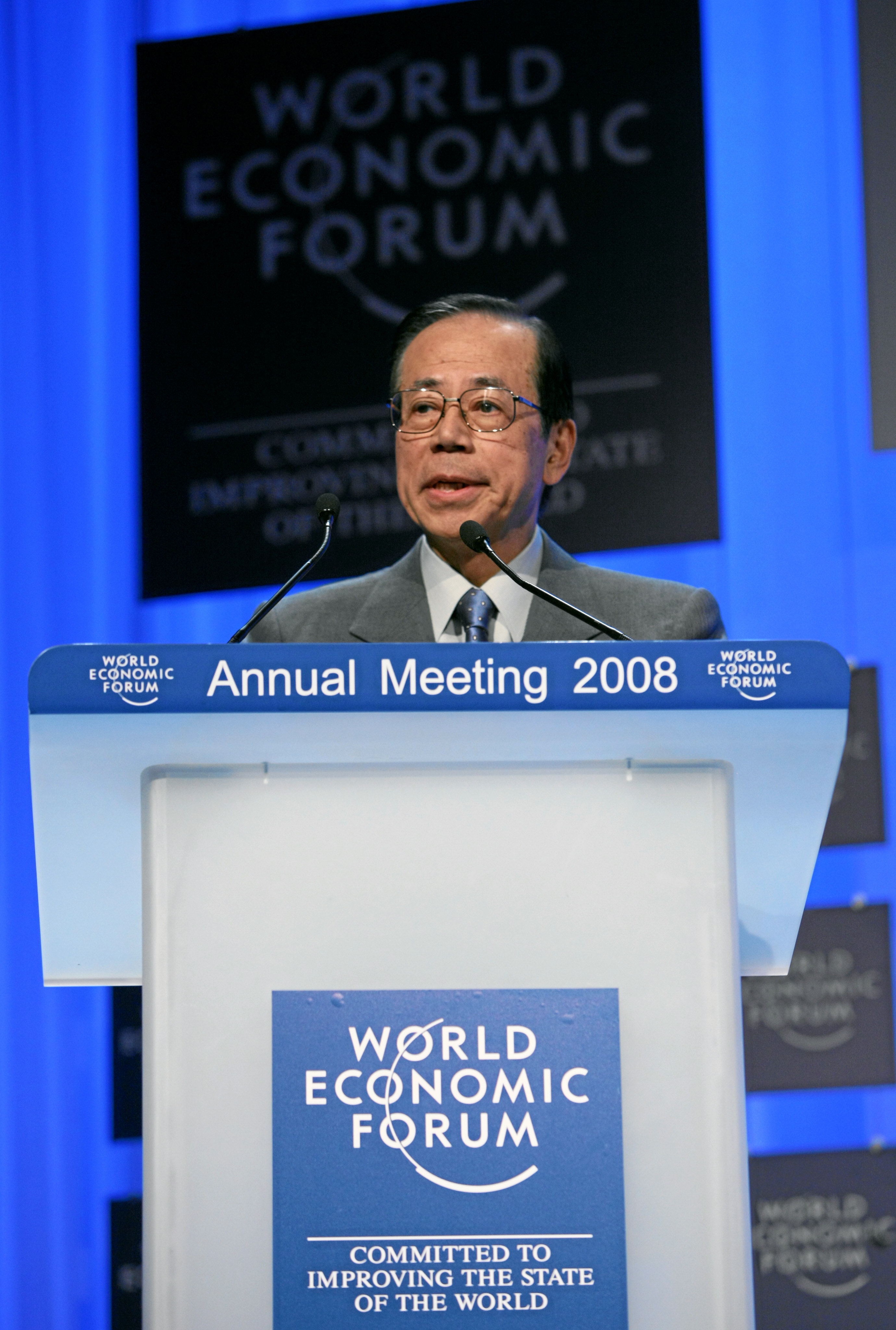 DAVOS/SWITZERLAND, 26JAN08 - Yasuo Fukuda, Prime Minister of Japan holds a Special Address at the Annual Meeting 2008 of the World Economic Forum in Davos, Switzerland, January 26, 2008. Copyright World Economic Forum ( by Remy Steinegger